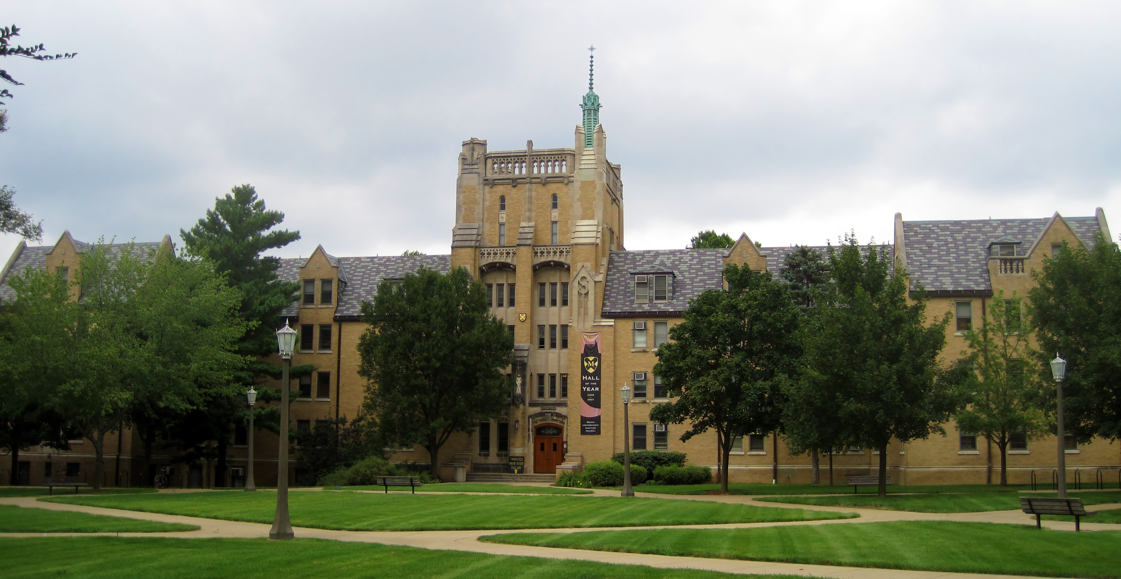 Morrissey Hall at the University of Notre Dame Campus Main and South Quadrangles in South Bend, IN (1925). It is one of a trio of residence halls built in the 1920s at Notre Dame.